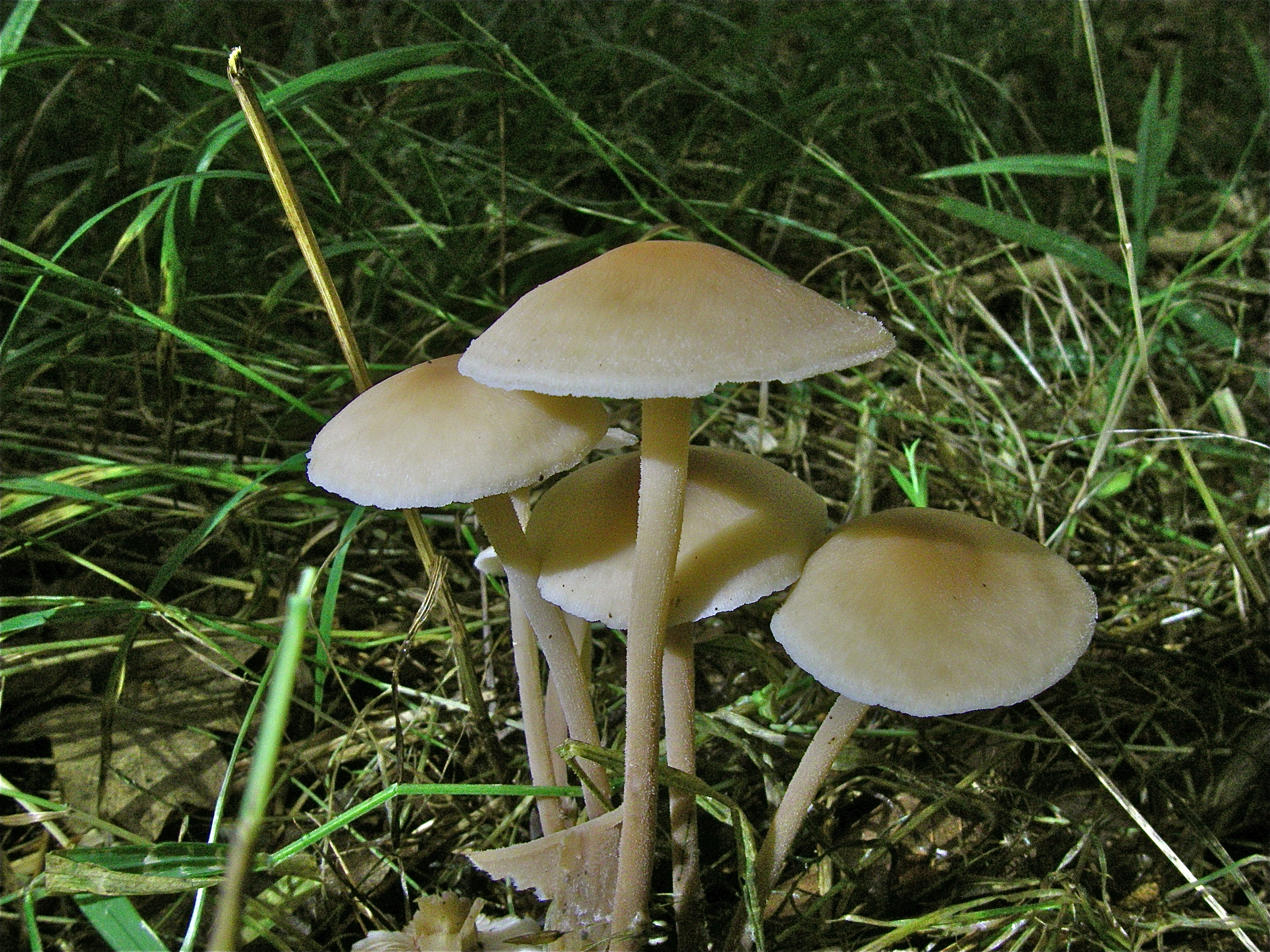 The making of this document was supported by the Community-Budget of Wikimedia Germany.